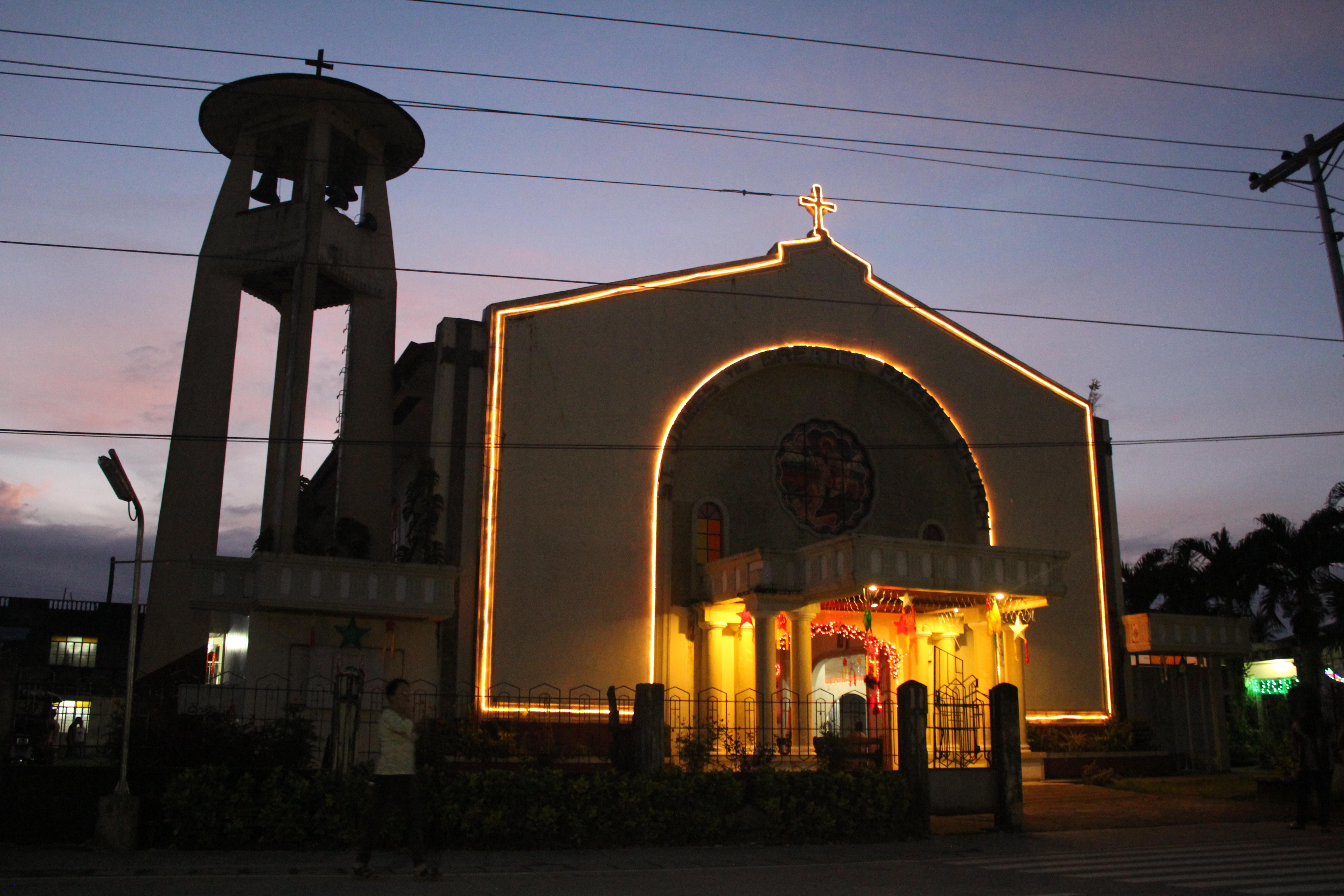 St. James the Greater Parish Church Facade during the Simbang Gabi 2016